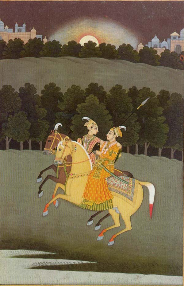 Baz Bahadur and Rupmati, Provincial Mughal (Murshidabad) style Source: India Office Library, Colour Prints, No. 17: Provincial Mughal Painting: Baz Bahadur and Rupmati. Scan by FWP, Sept. 2001. "Baz Bahadur, Pathan ruler of Malwa, Central India, riding at night with his mistress, the Hindu courtesan Rupmati. Murshidabad, c.1760. 21.5 x 14 cm. Gouache on paper. India Office Library. A popular theme in later Indian painting was the romantic story of Baz Bahadur, whose mistress committed suicide when he himself fled on being defeated by a Mughal army in 1561."